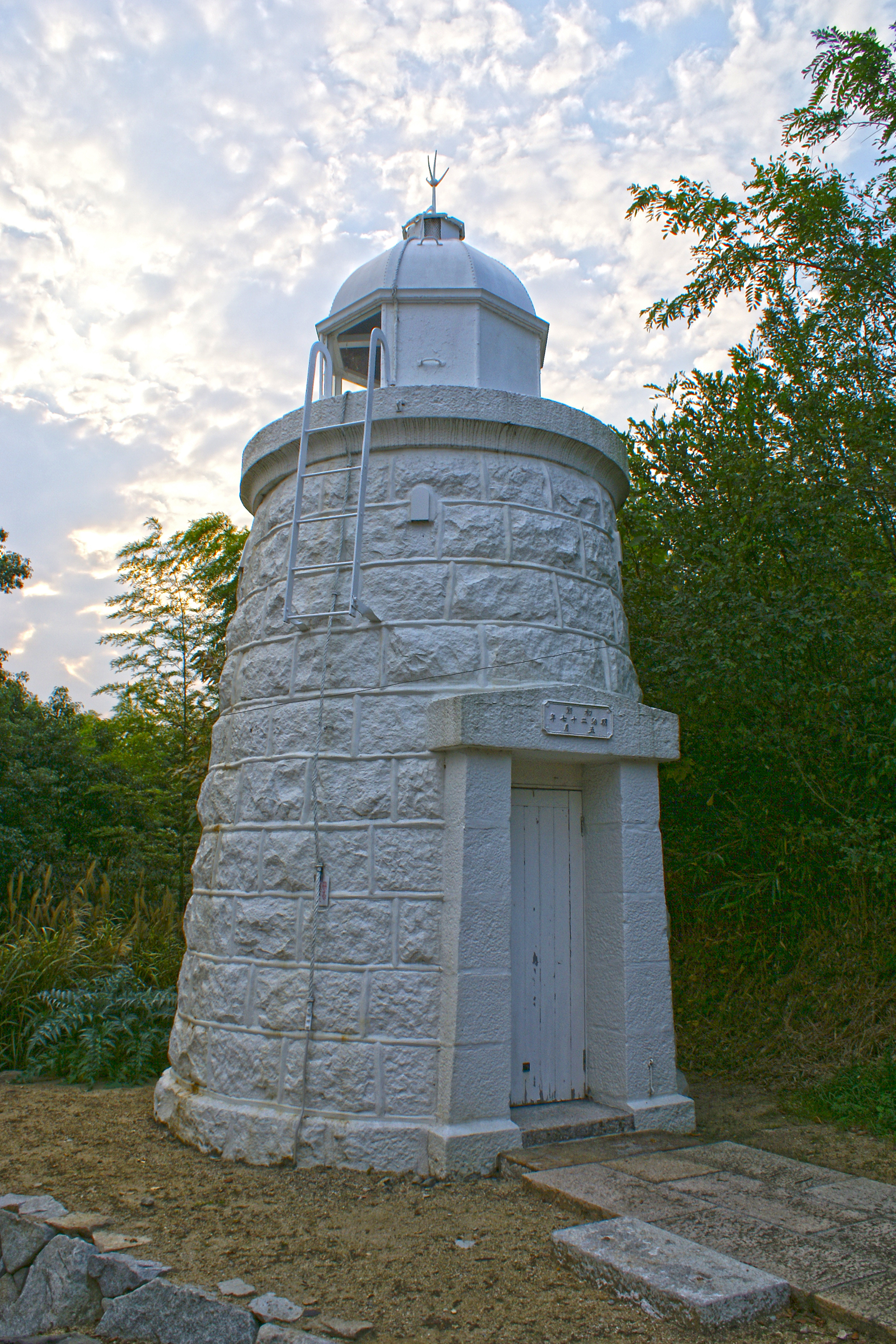 Shikoku Mura in Takamatsu, Kagawa Prefecture, Japan